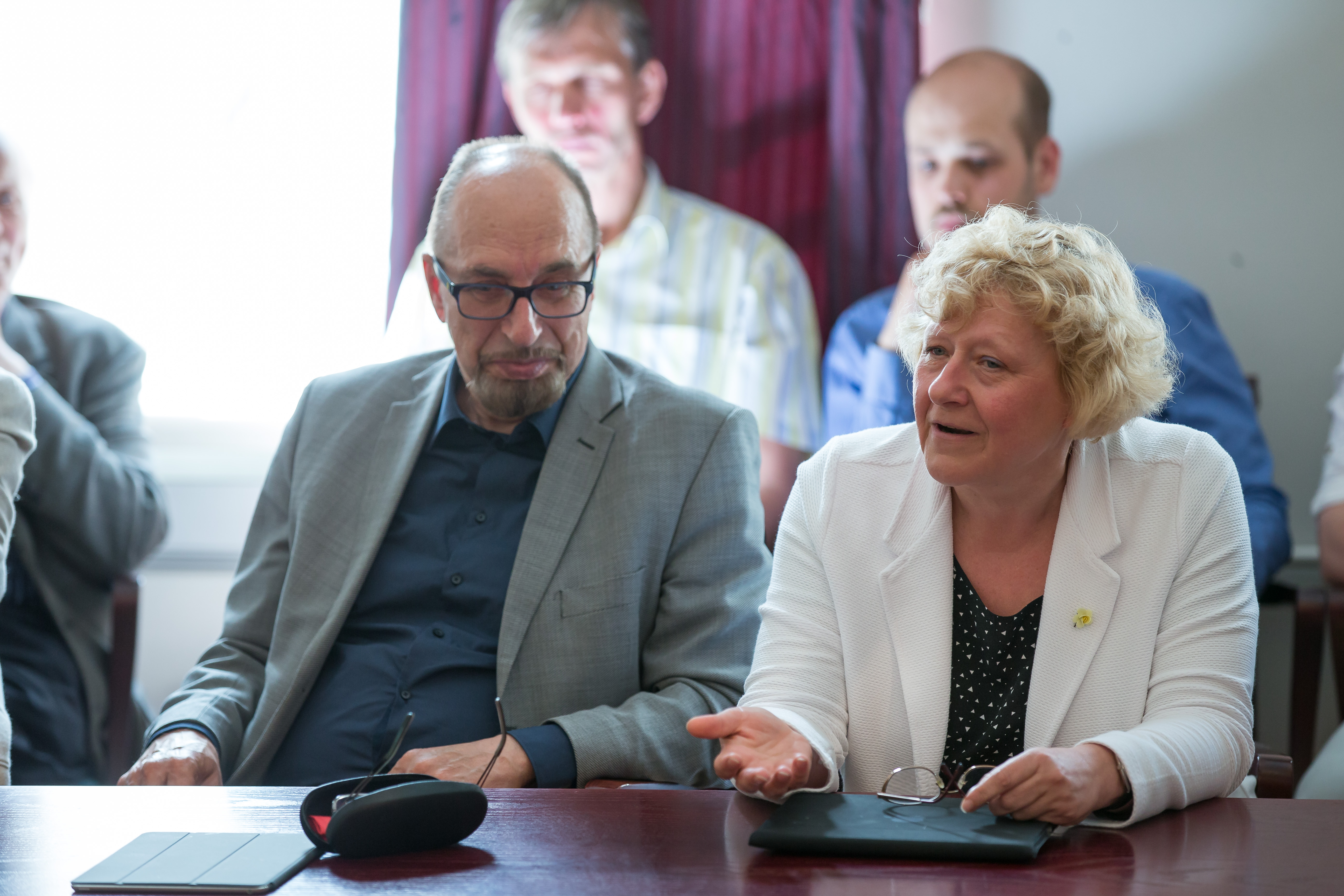 Council of the University of Tartu seminar "Risk management and developing of entrepreneurship inside the university". Peeter Saari and Kaja Tael.